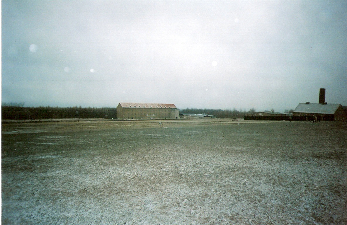 This image, taken in winter, displays the area where the prisoner huts were. To the right is the crematorium and in the background center is the Effektenkammer, where the main museum exhibits are housed today.